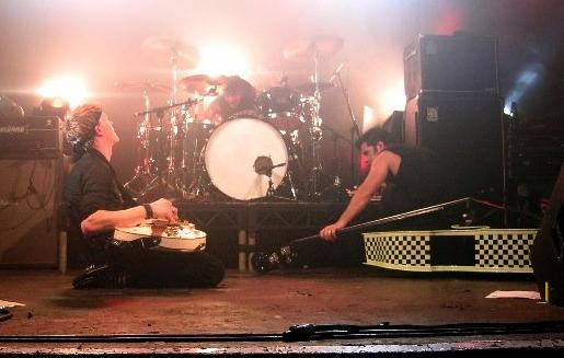 Photo taken, by myself, of Australian band The Living End performing at the Electric Ballroom, London, on August 21st 2007.